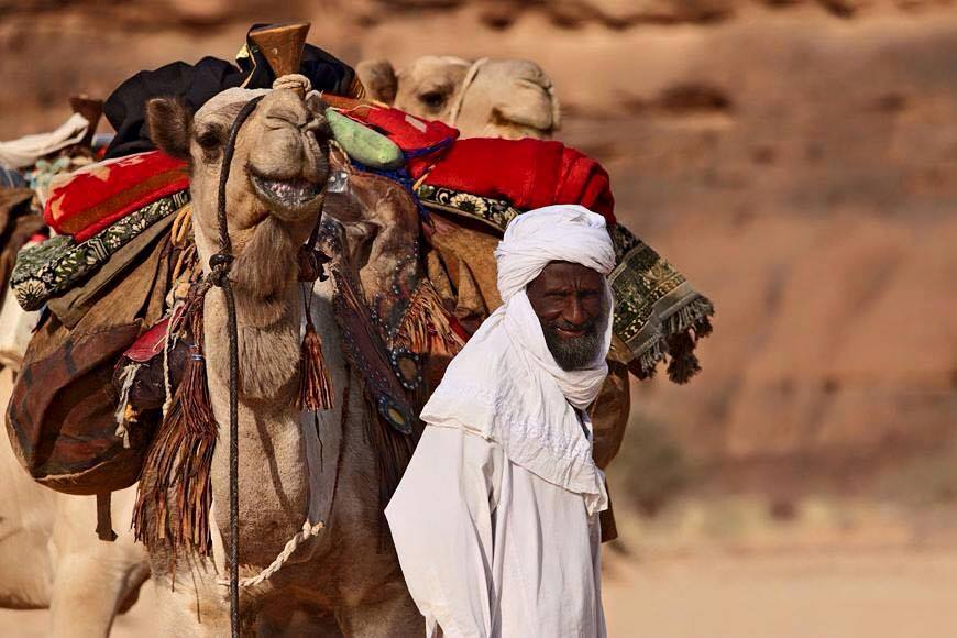 toubou man traveling in the dessert